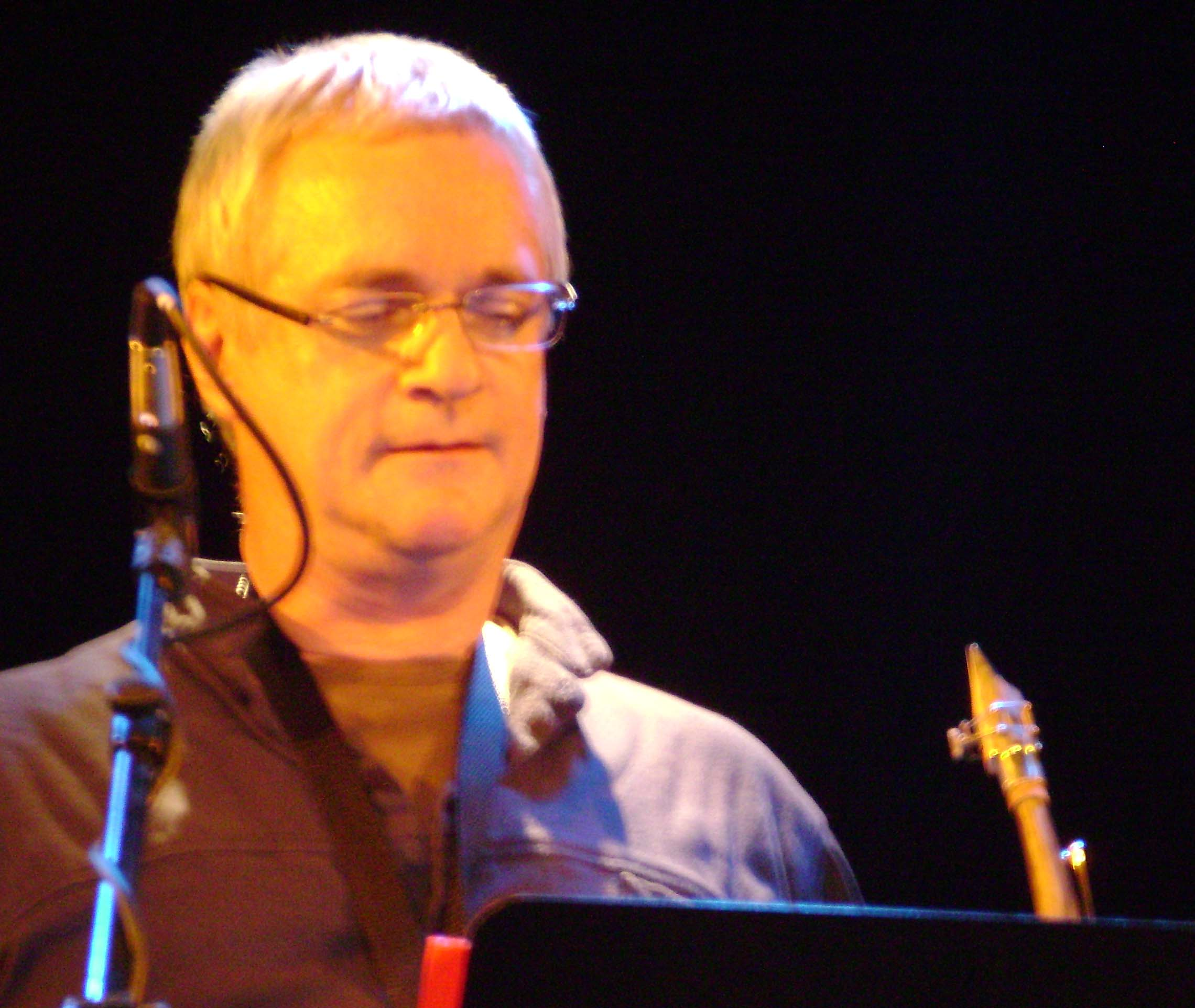 Wolfgang Puschnig at a concert with Saxofour. Treibhaus Innsbruck, 2008